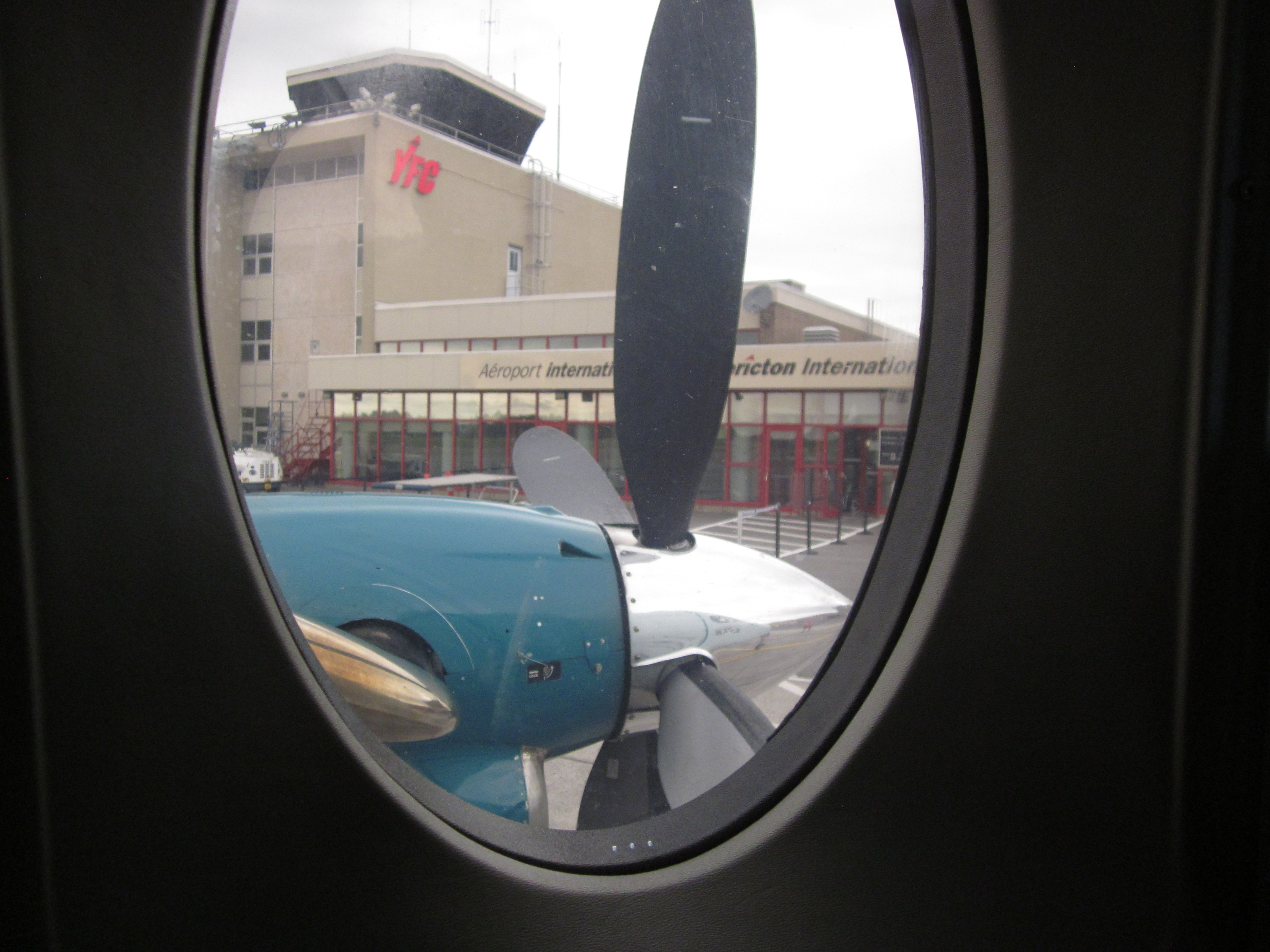 Fredericton Airport terminal as seen from an aircraft, with control tower on the left